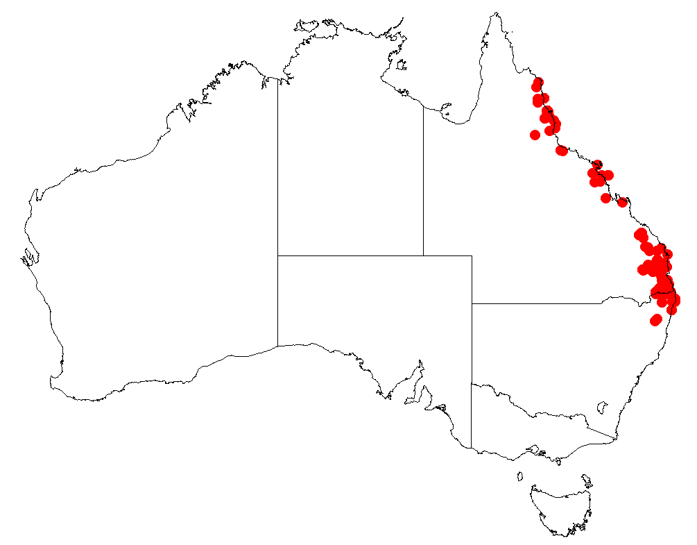 Parsonsia bartlensis Occurrence data for Australia from Australasian Virtual Herbarium downloaded 22 December 2018